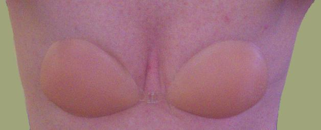 Using a gel bra to create cleavage, step two, pulling cups together.